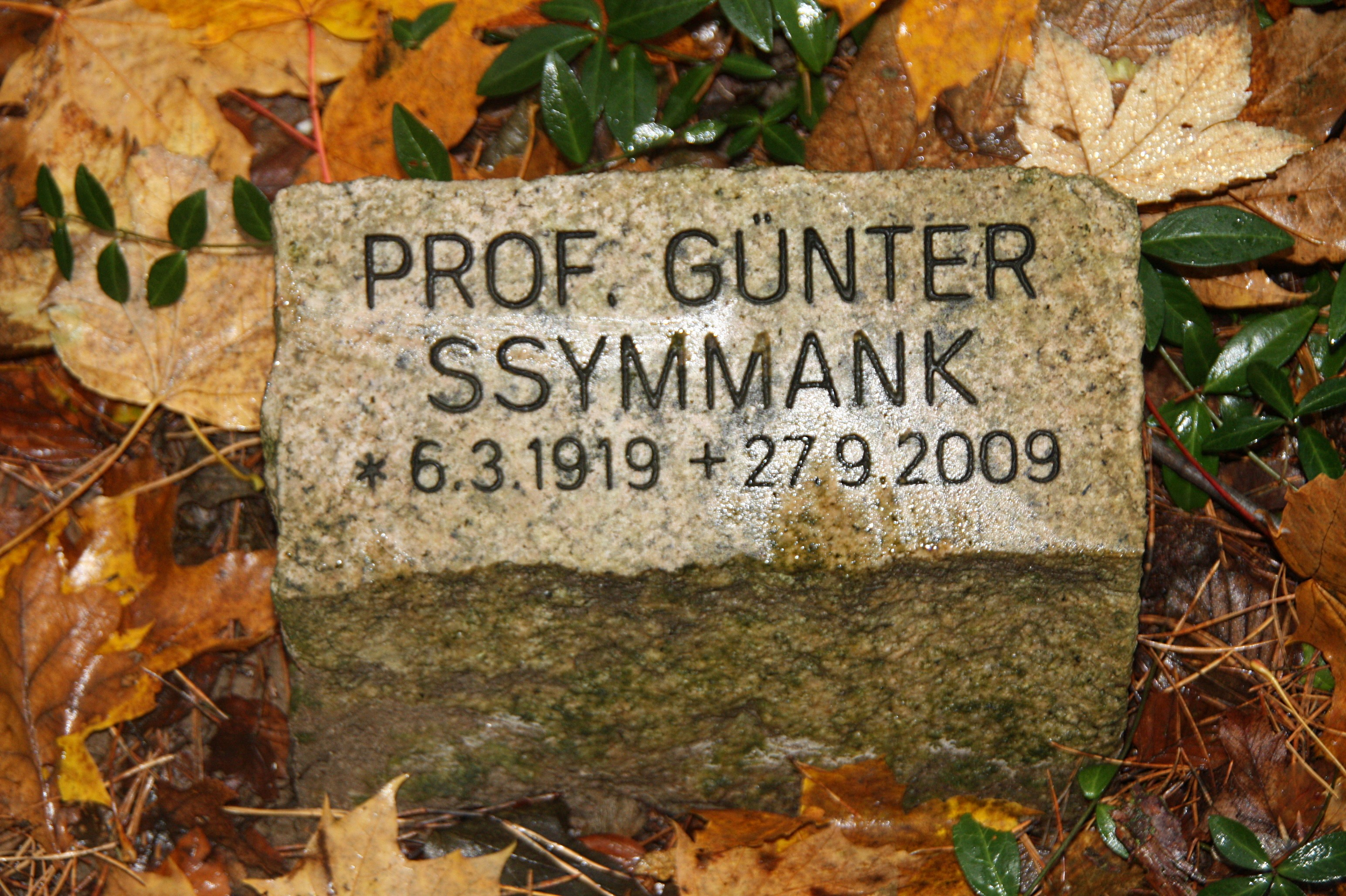 Gravestone for designer Günter Ssymmank at Southwestern Cemetery Stahnsdorf